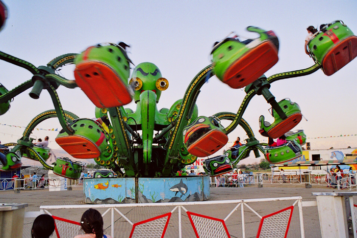 pulpo